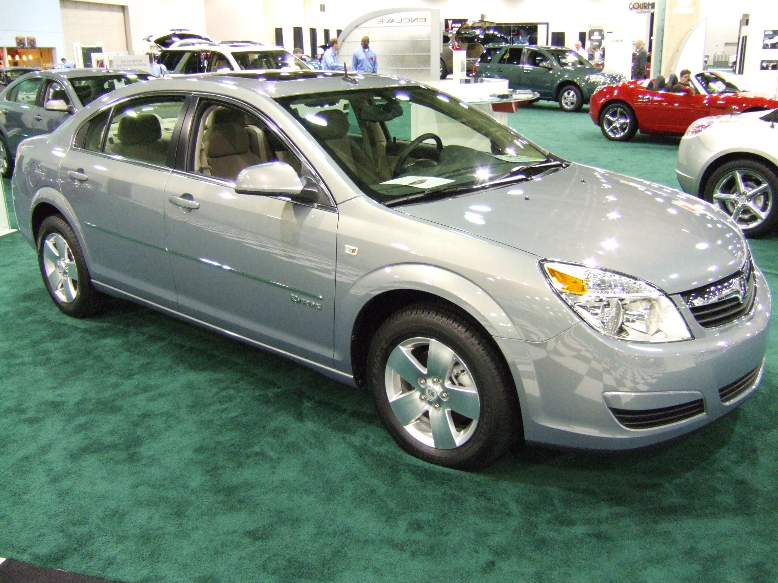 The Saturn Aura Green Line. Self made photo, taken at the 2007 Columbus International Auto Show.